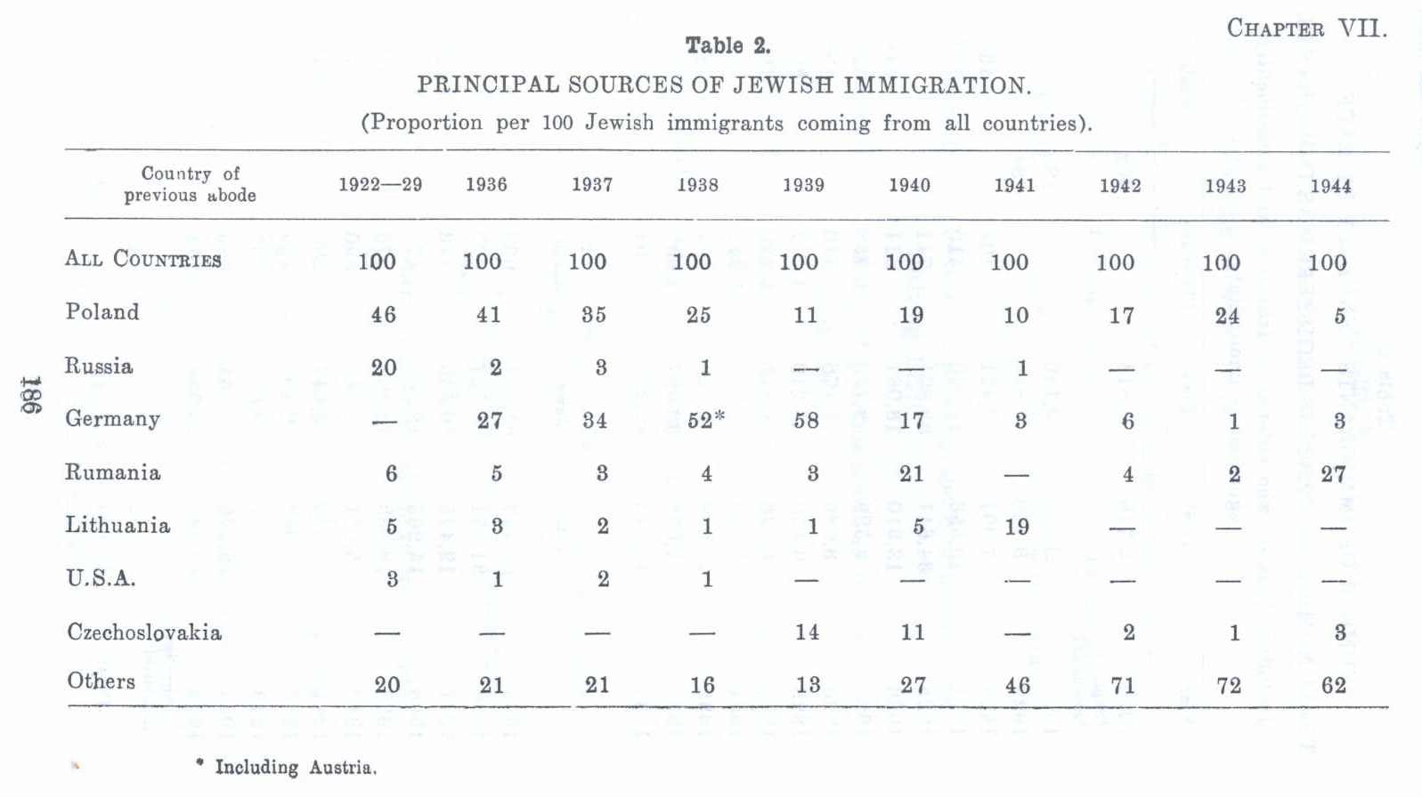 Survey of Palestine Page 186